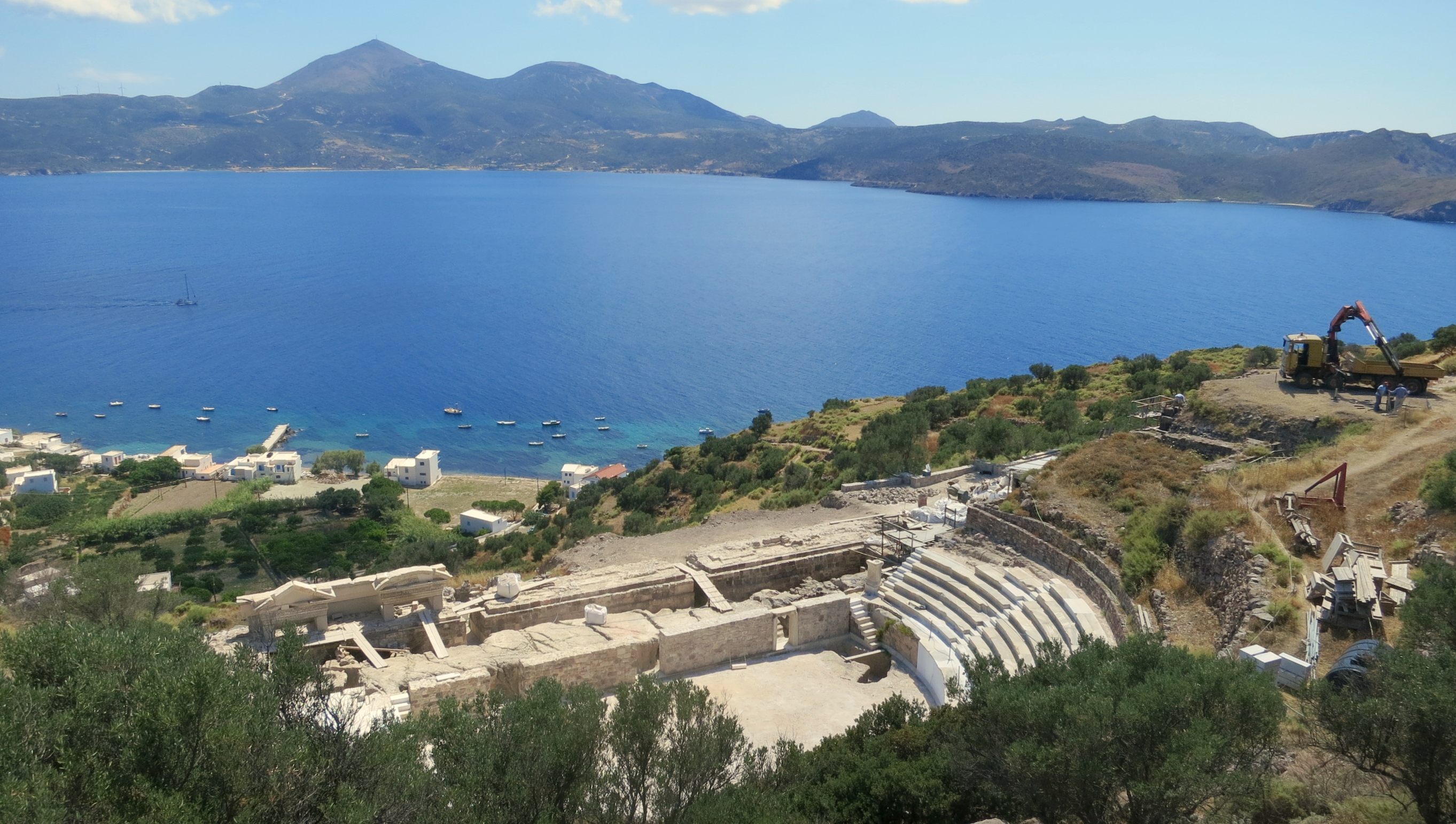 The ancient theatre of Milos, Roman times.